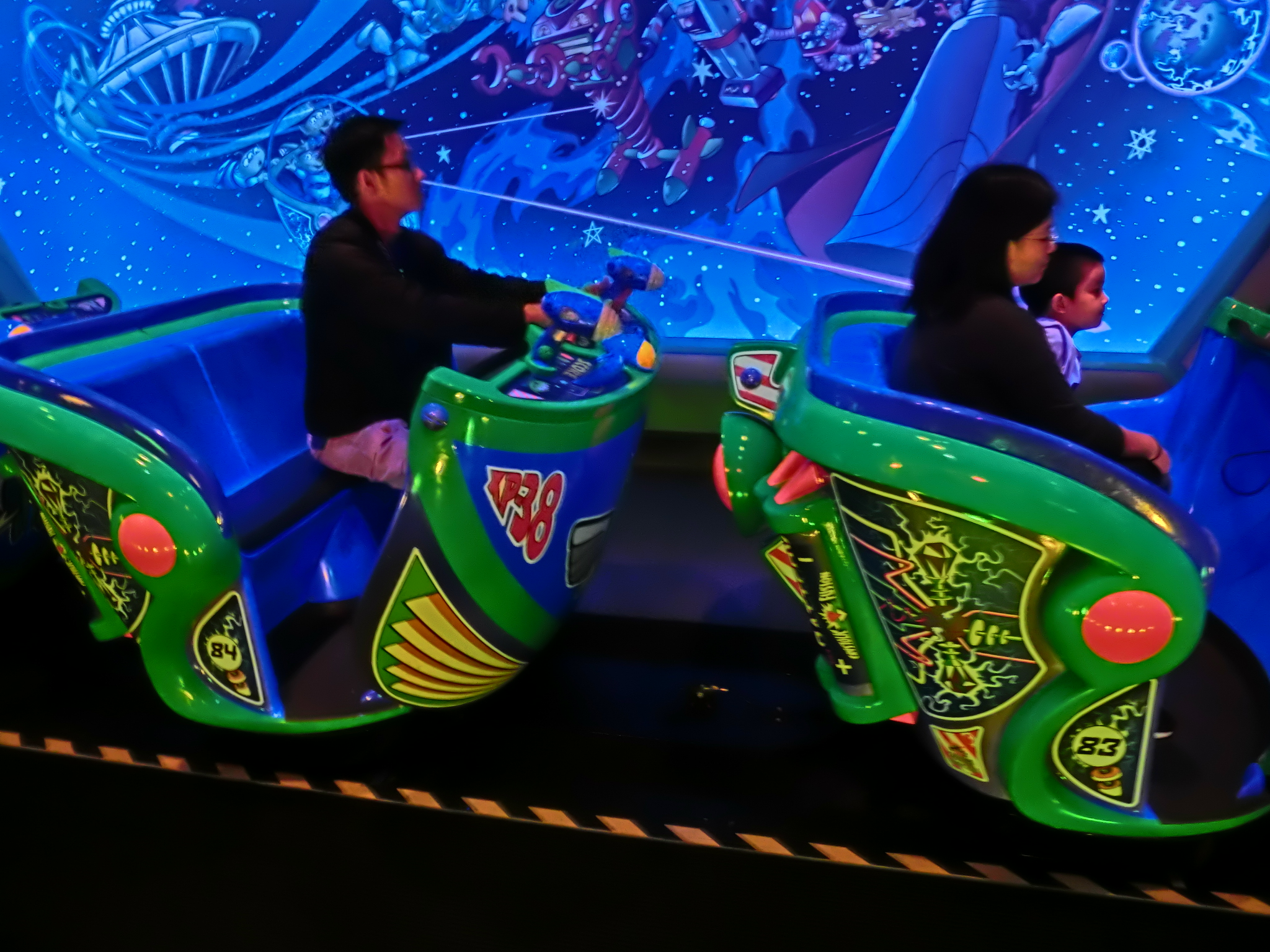 巴斯光年 星際歷險, Buzz Lightyear Astro Blasters, Hong Kong Disneyland, Hong Kong